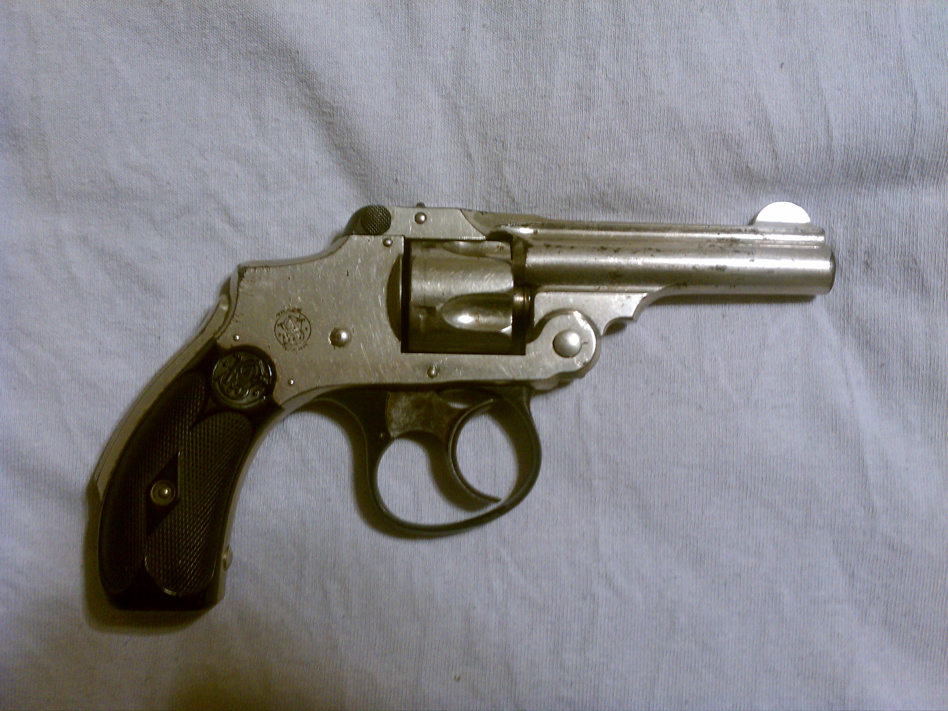 This is a picture that I took of my personal Smith and Wesson Lemon Squeezer. I took the picture myself and release it under the GFDL terms according to Wikipedia.